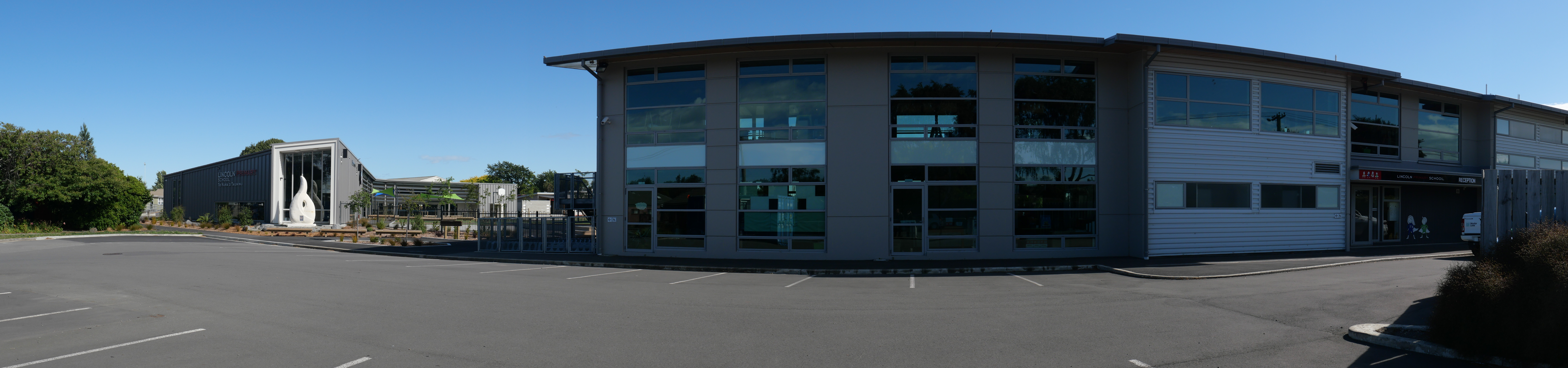 A panorama of Lincoln primary school, Canterbury, New Zealand. Taken on the 6/01/2020